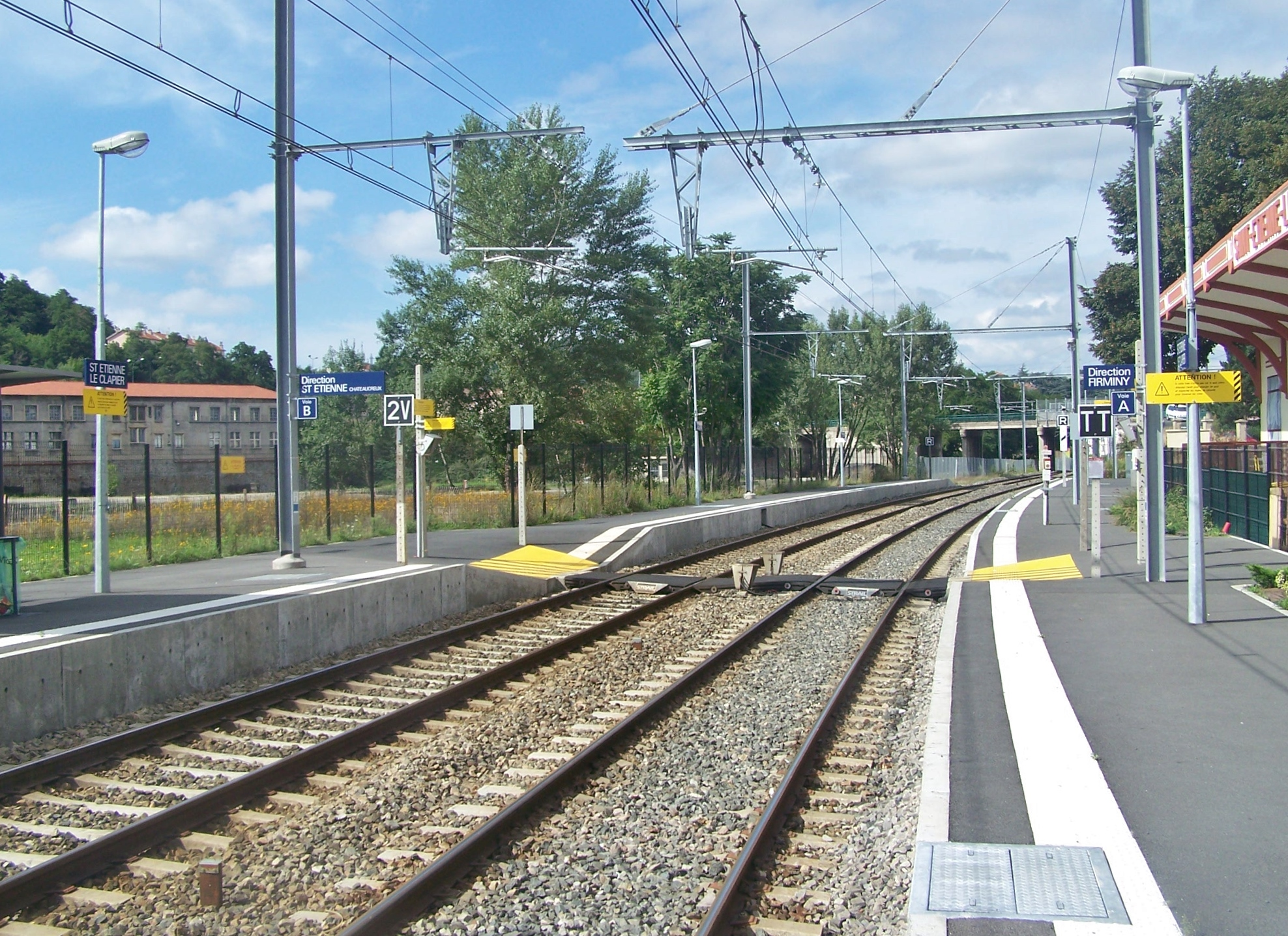 Sight on the platforms and tracks of the Saint-Étienne Le Clapier railway station, in Loire, France.